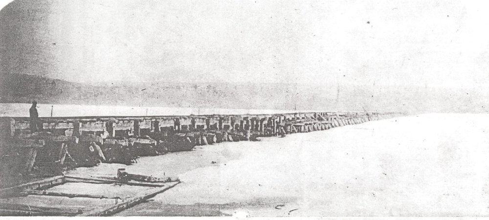 The Cobourg and Peterborough Railway in Ontario, Canada, ran straight across Rice Lake on this causeway and bridges further north. Ice was a significant problem over its short lifetime, and the bridges collapsed in 1861.